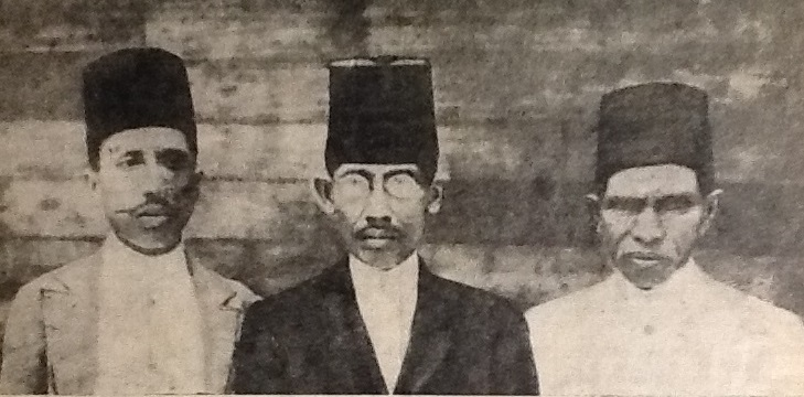 These three people are prominent Minangkabau Islamic scholars, namely: Dr. Hadji Abdul Karim Amrullah, author of Al-Munir magazine published in Padang (left), Sheikh Taher Jalaluddin, leader of Al-Imam magazine published in Singapore (center) and Sheikh Daud Rasjidi.